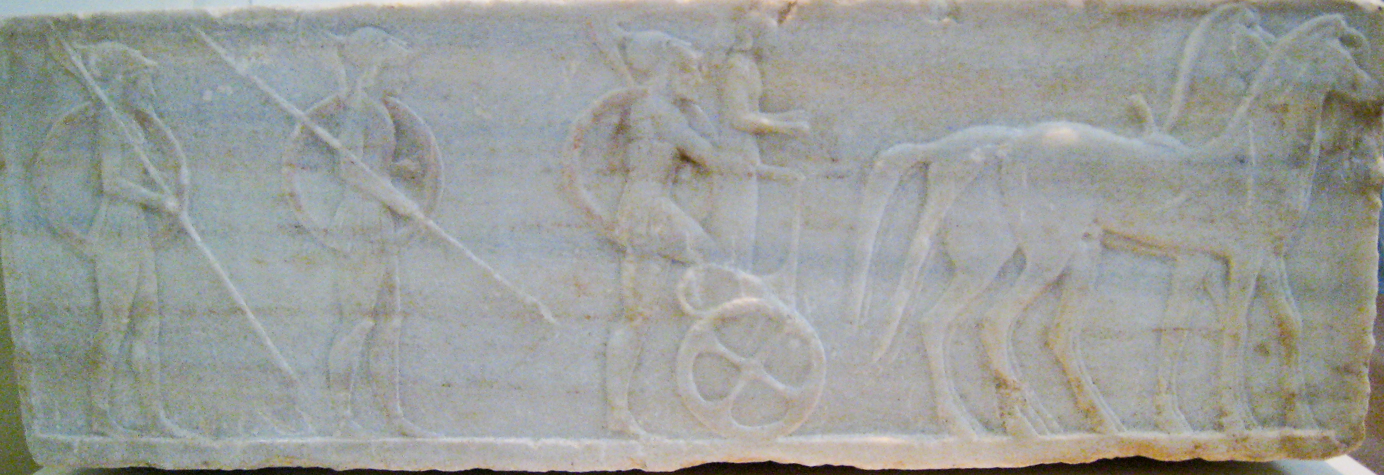 Base of a funerary kouros, found in Kerameikos, built into Themistokleian wall. Decorated with reliefs: chariots, hoplites and hockey players. side view